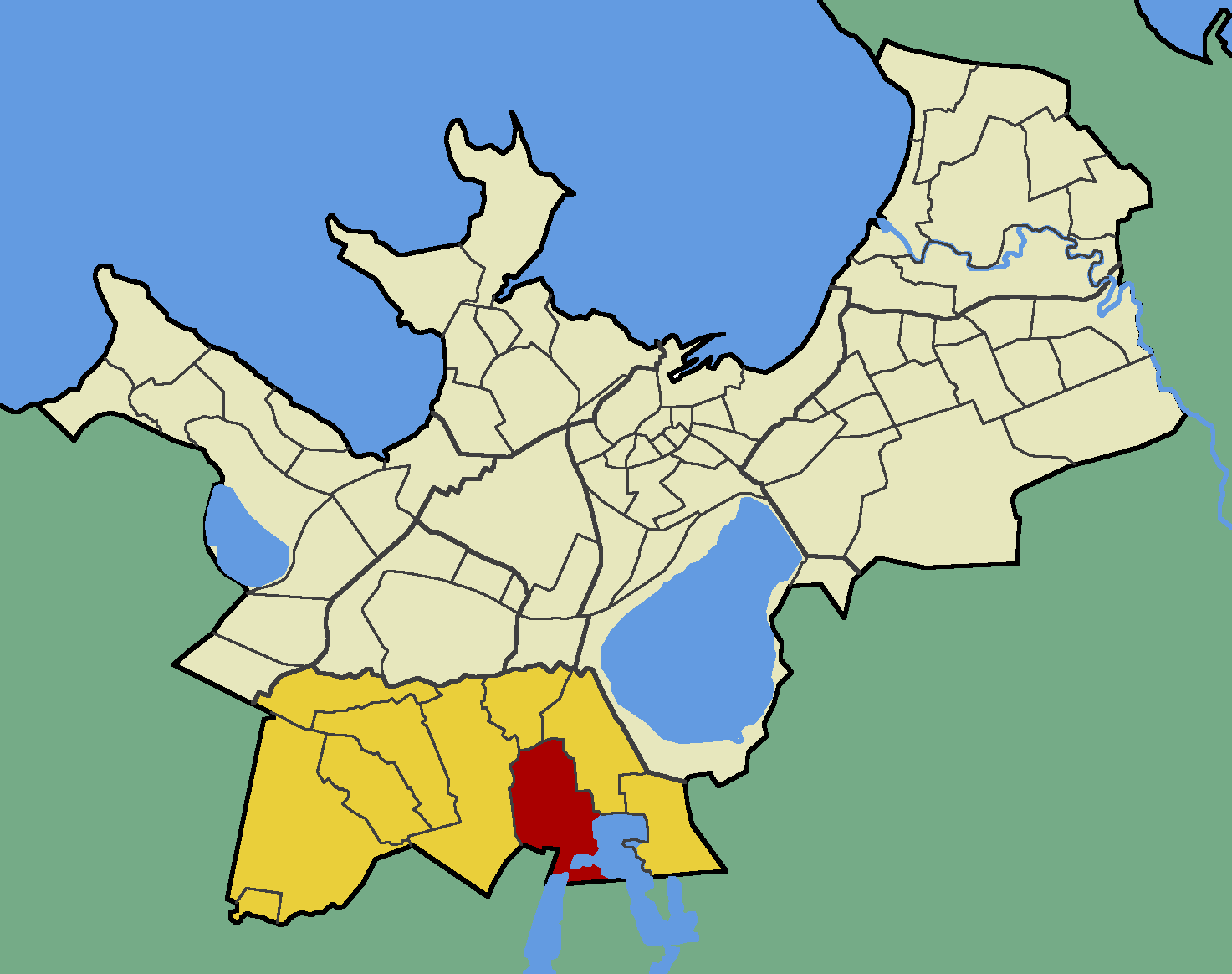 Map of Tallinn (Estonia) with borders of the quarters, Nõmme district and Männiku quarter emphasised